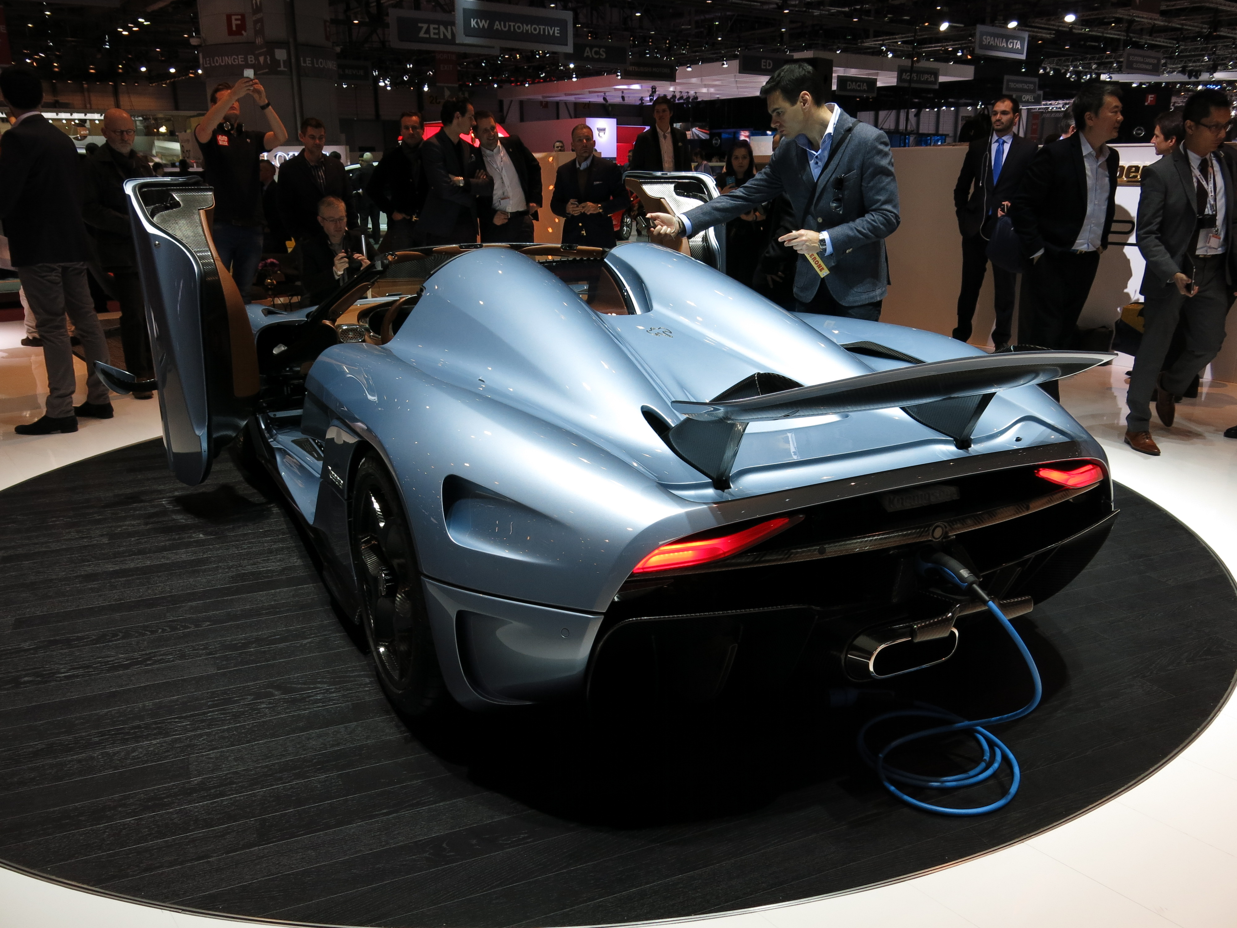 Geneva Motor Show 2015 (photo taken on the first press day)